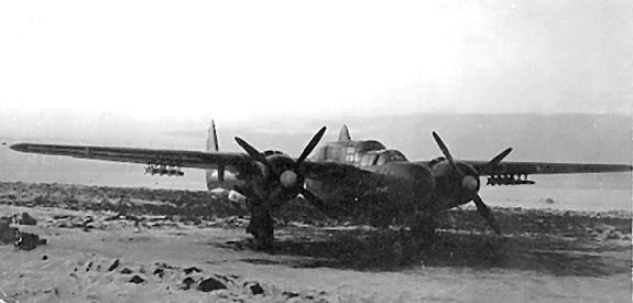 P-61 at ETAIN, FRANCE - ROCKETS INSTALLED. From SDASM's 425th Night Fighter Sq. Collection Repository: San Diego Air and Space Museum Archive